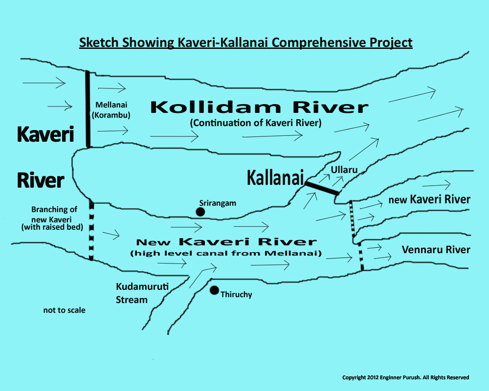 Kaveri-Kallanai Comprehensive Project Sketch